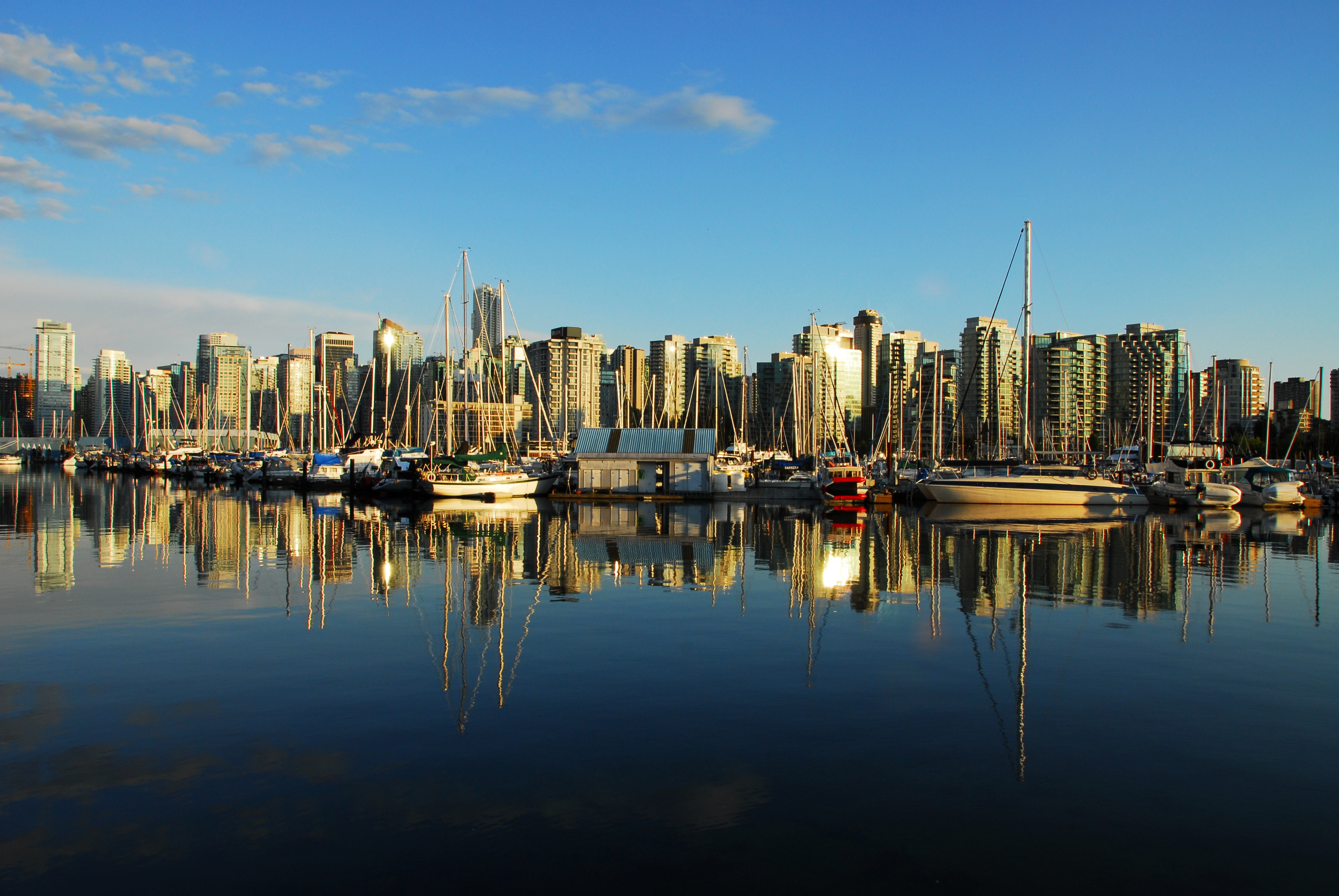 Vancouver City, BC,Canada